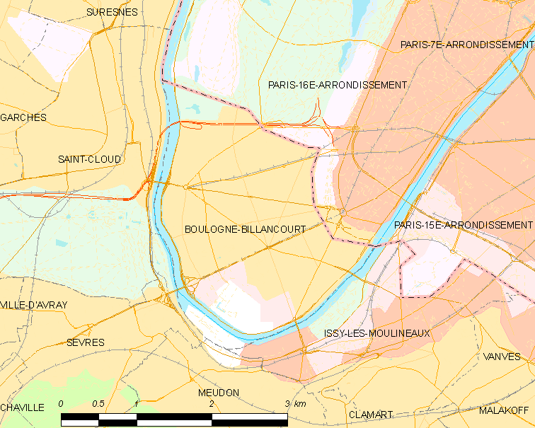 Map of French municipality Boulogne-Billancourt